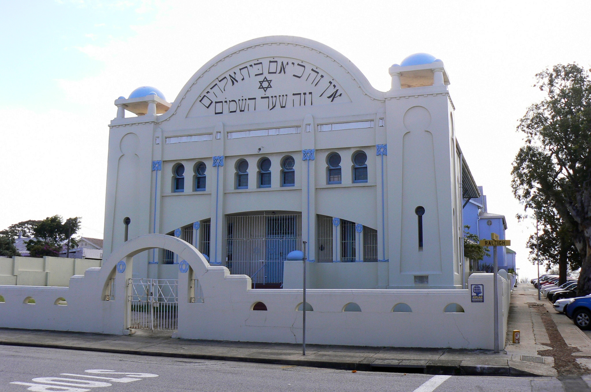 Pioneer's Memorial Synagogue, Raleigh Street, Richmond Hill, Port Elizabeth, South Africa This media shows a South African Protected Site with SAHRA file reference 9/2/073/0007.